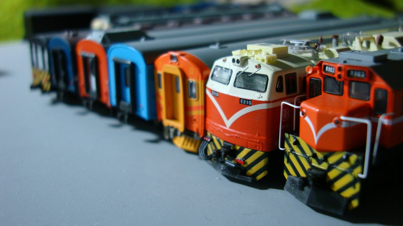 N-SIZE RAILWAY MODELS OF Touch-Rail Models CO.,Ltd IN TAIWAN